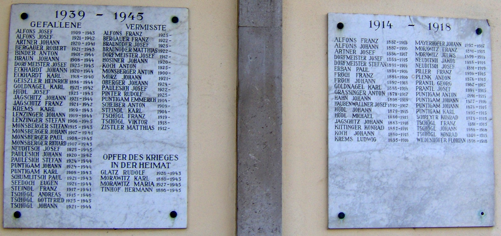 Krensdorf, war memorial on the church